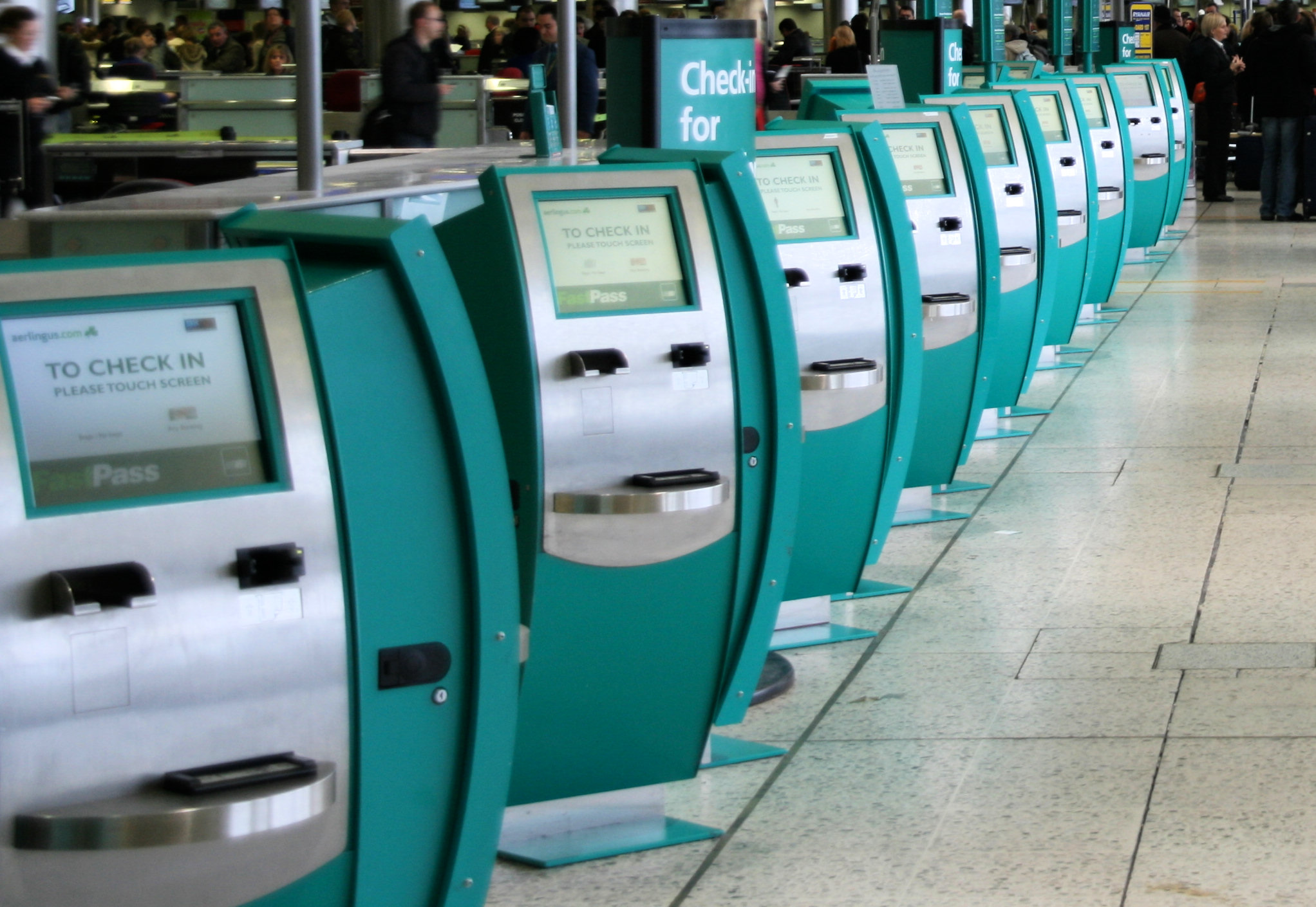 Dublin International Airport, Ireland. Aer Lingus self check-in machines.